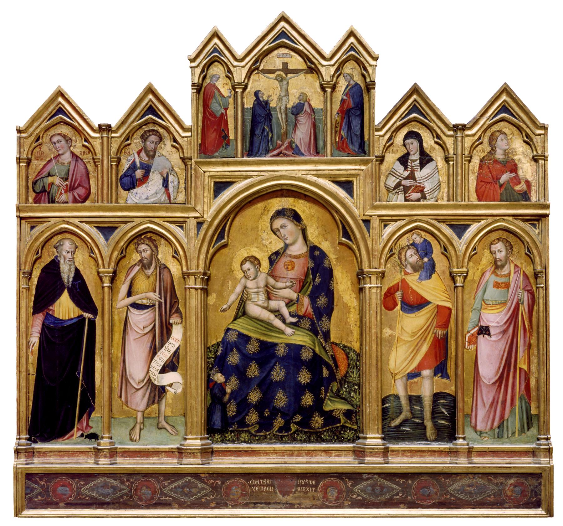 Madonna and Child, Crucifixion and Saints